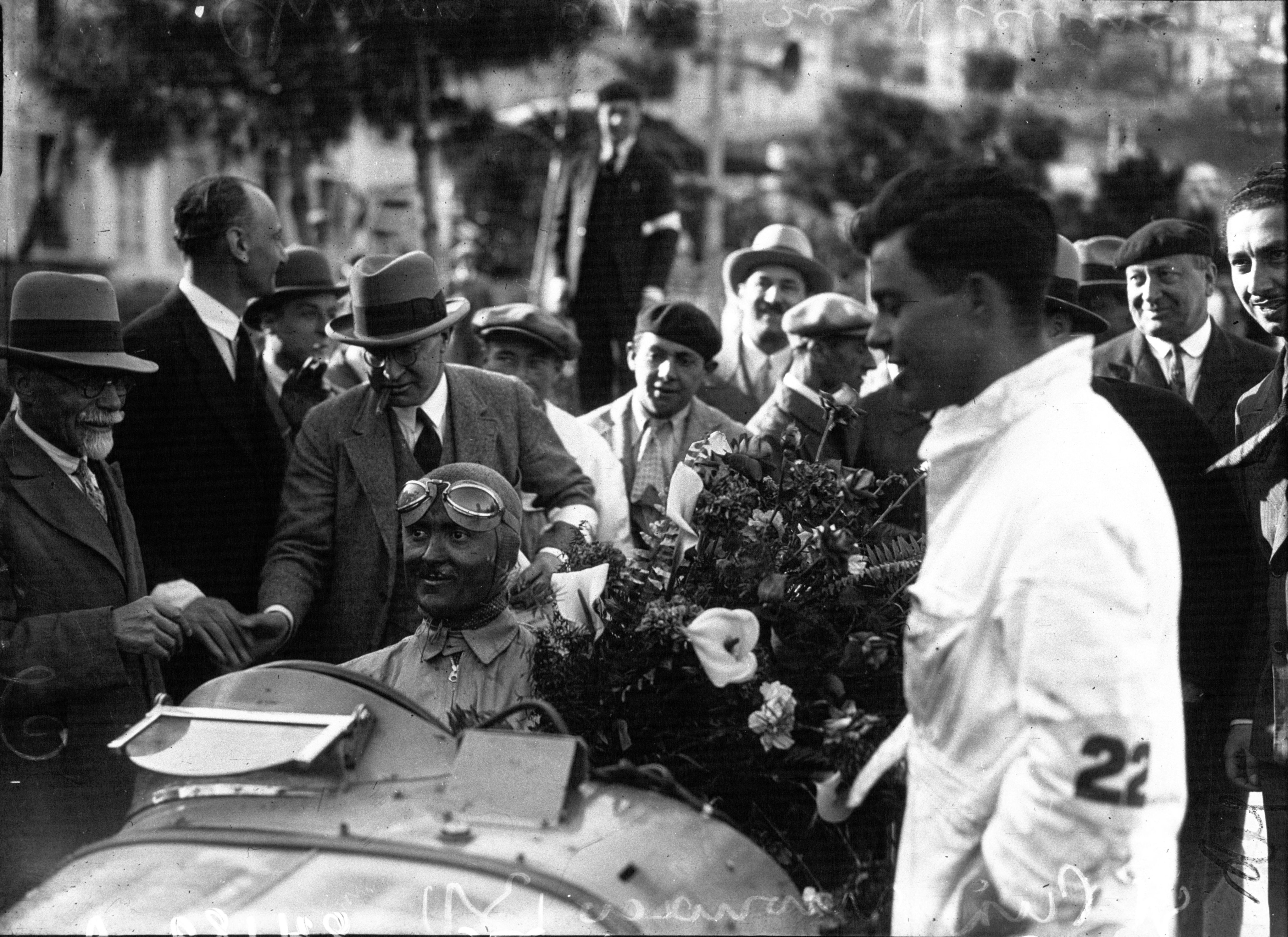 Louis Chiron at the 1931 Monaco Grand Prix, his entry #22 has won. Bugatti mechanic Lucien Wurmser (right, in white outfit with #22 on arm.)